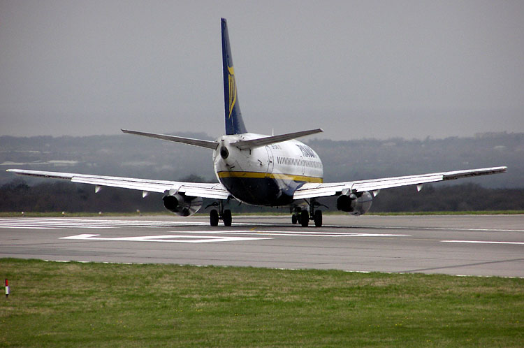 Dihedral is clearly visible on the wings and tailplane of this Ryanair Boeing 737. Photographed by Adrian Pingstone at Bristol Airport (England) in April 2004 and released to the public domain.